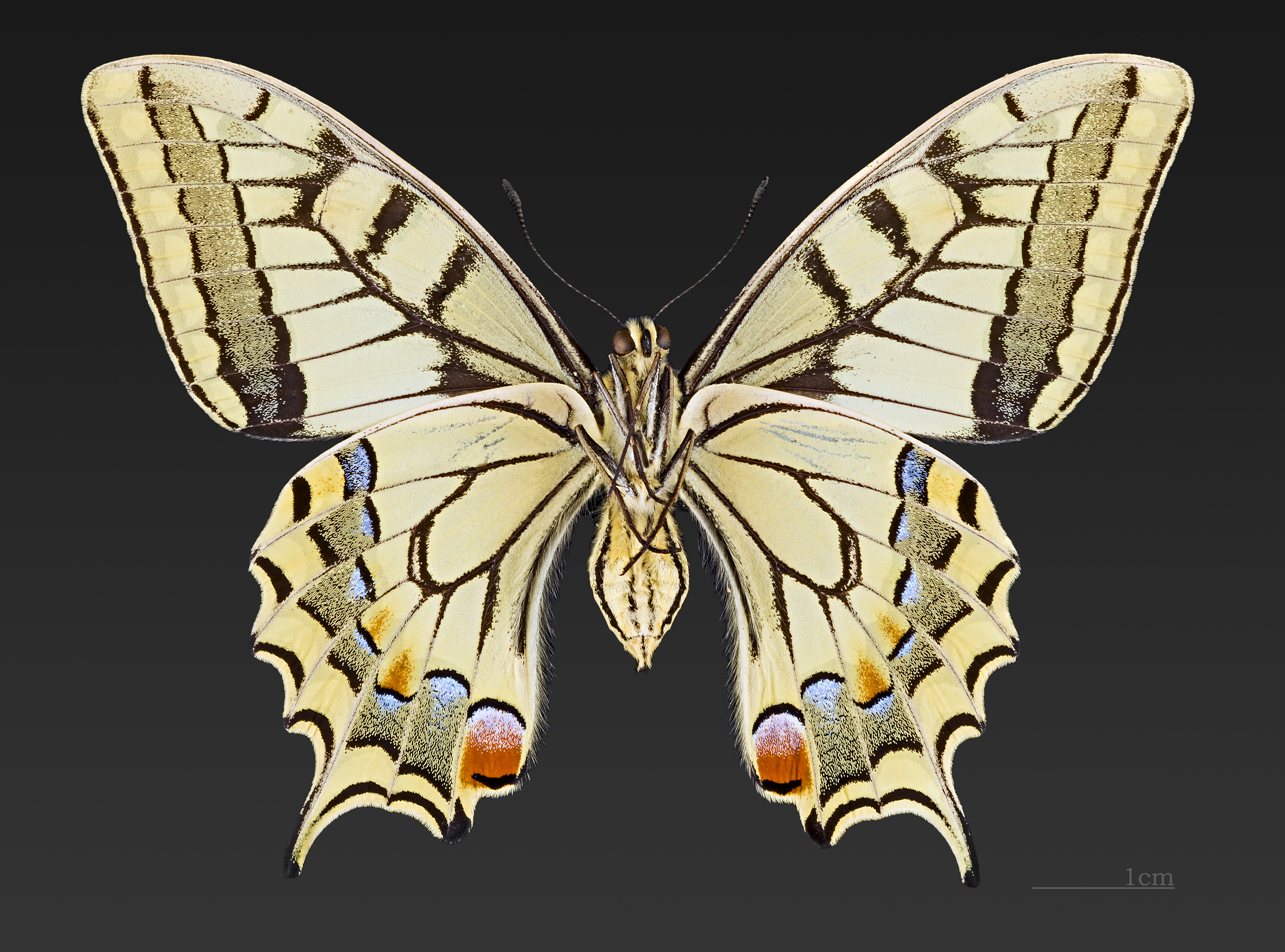 Old World swallowtail - △ Ventral side